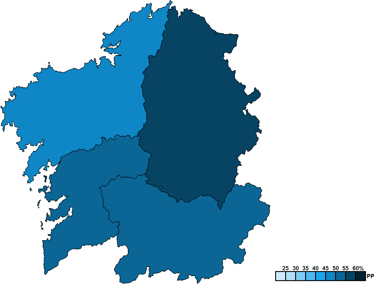 Provincial results for the 1993 Galician regional election.